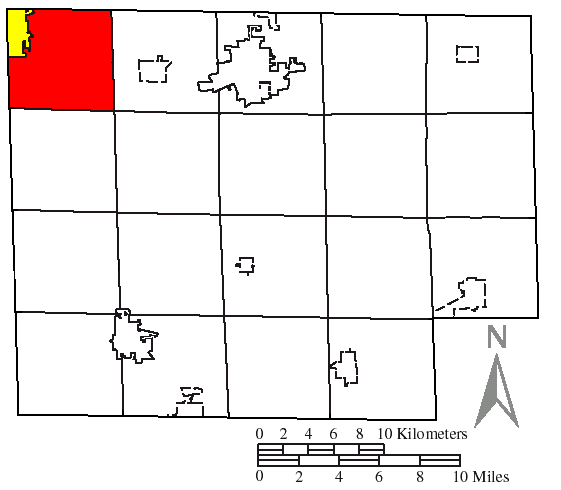 Made by the US Census and modified by myself